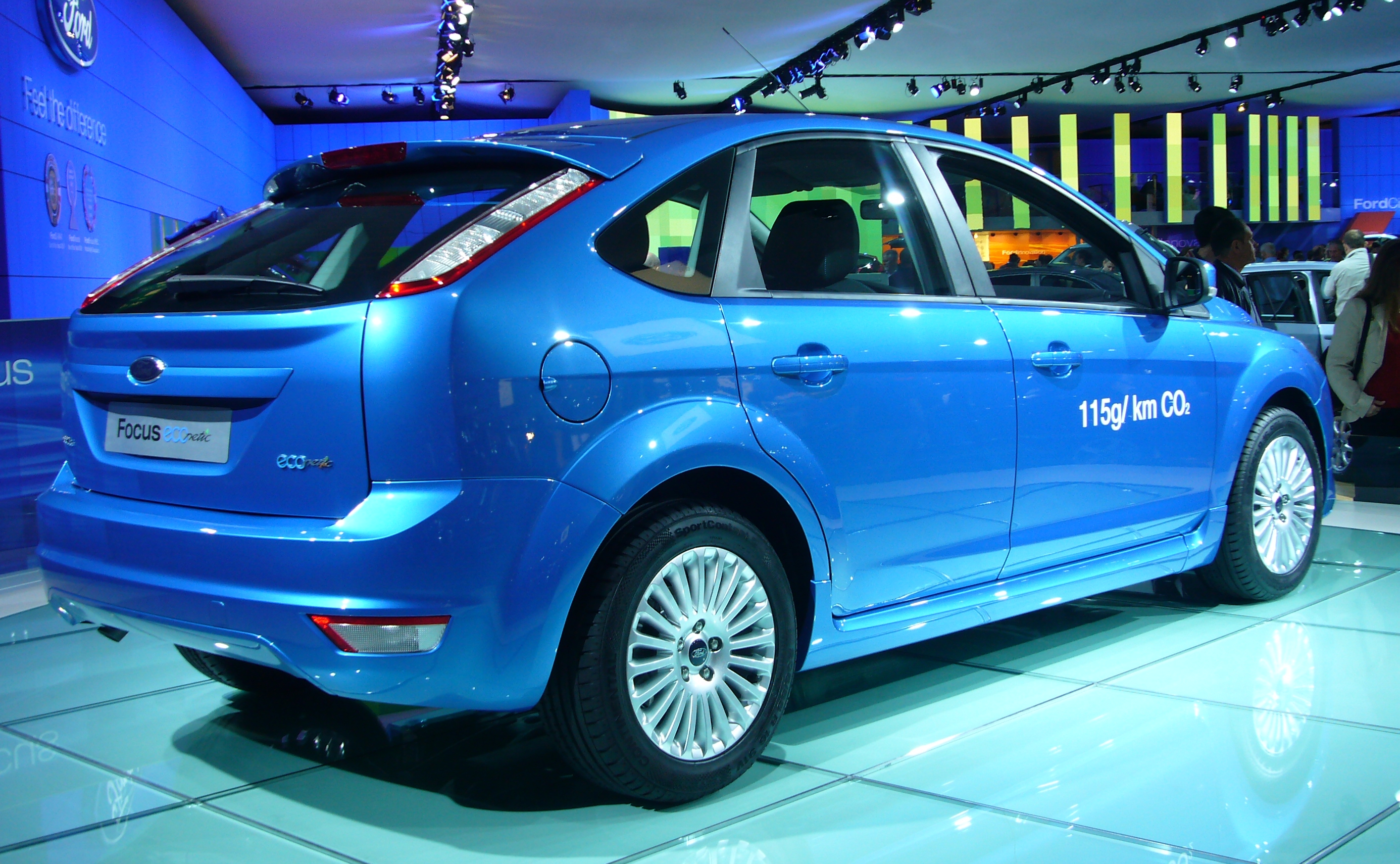 Ford Focus facelift ECOnetic at IAA Frankfurt 2007